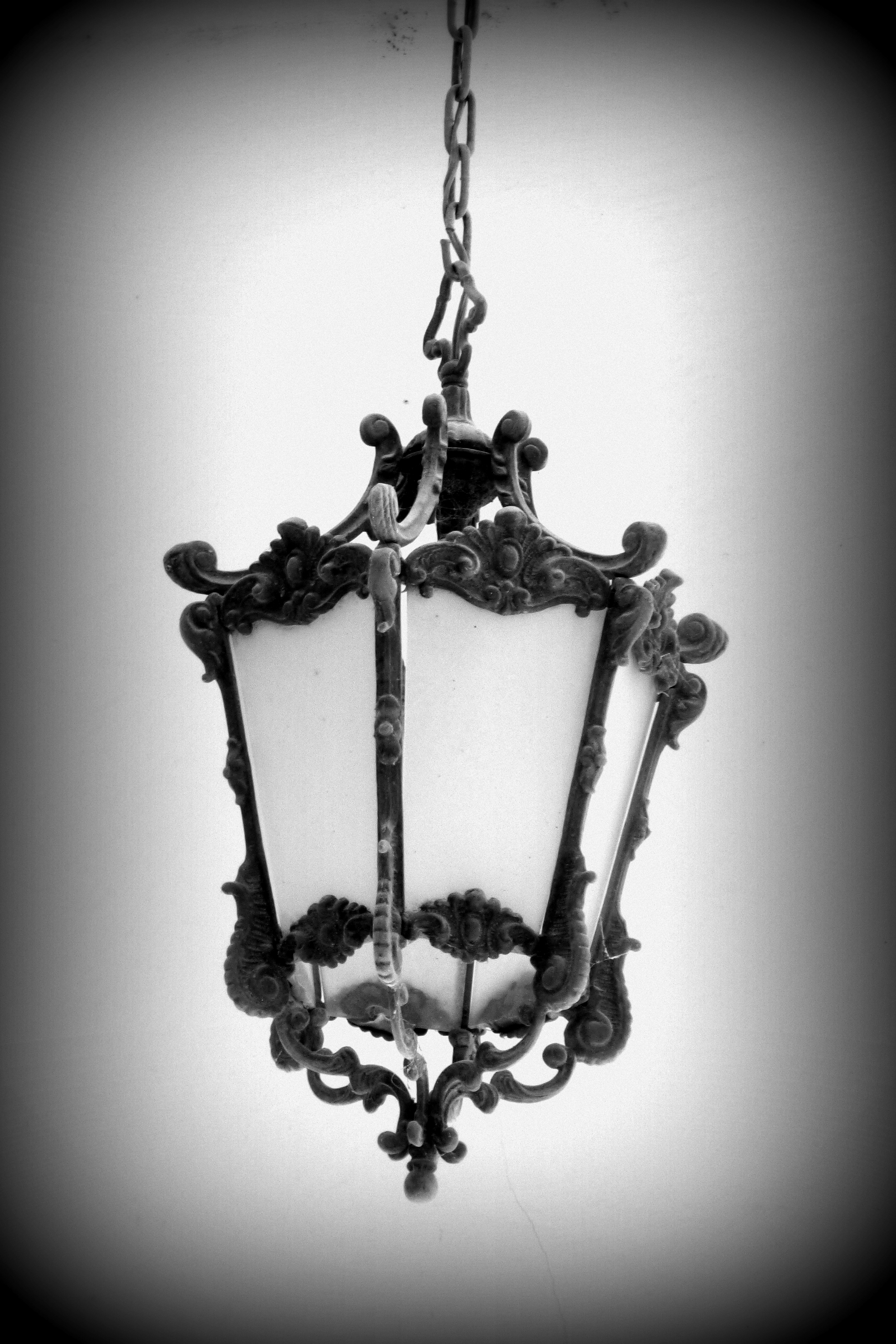 Suspended lantern in Israel